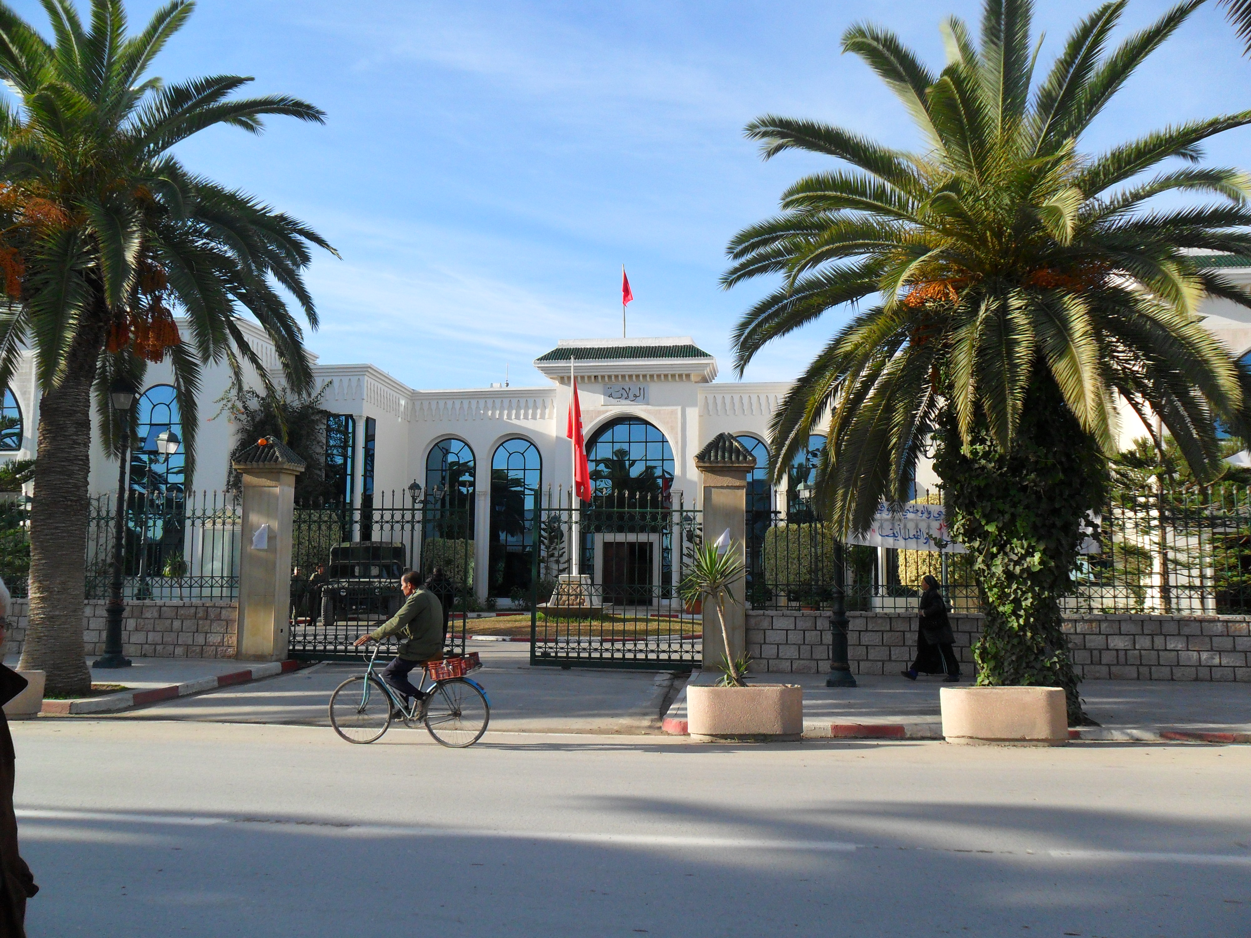 Ariana Governorate Building